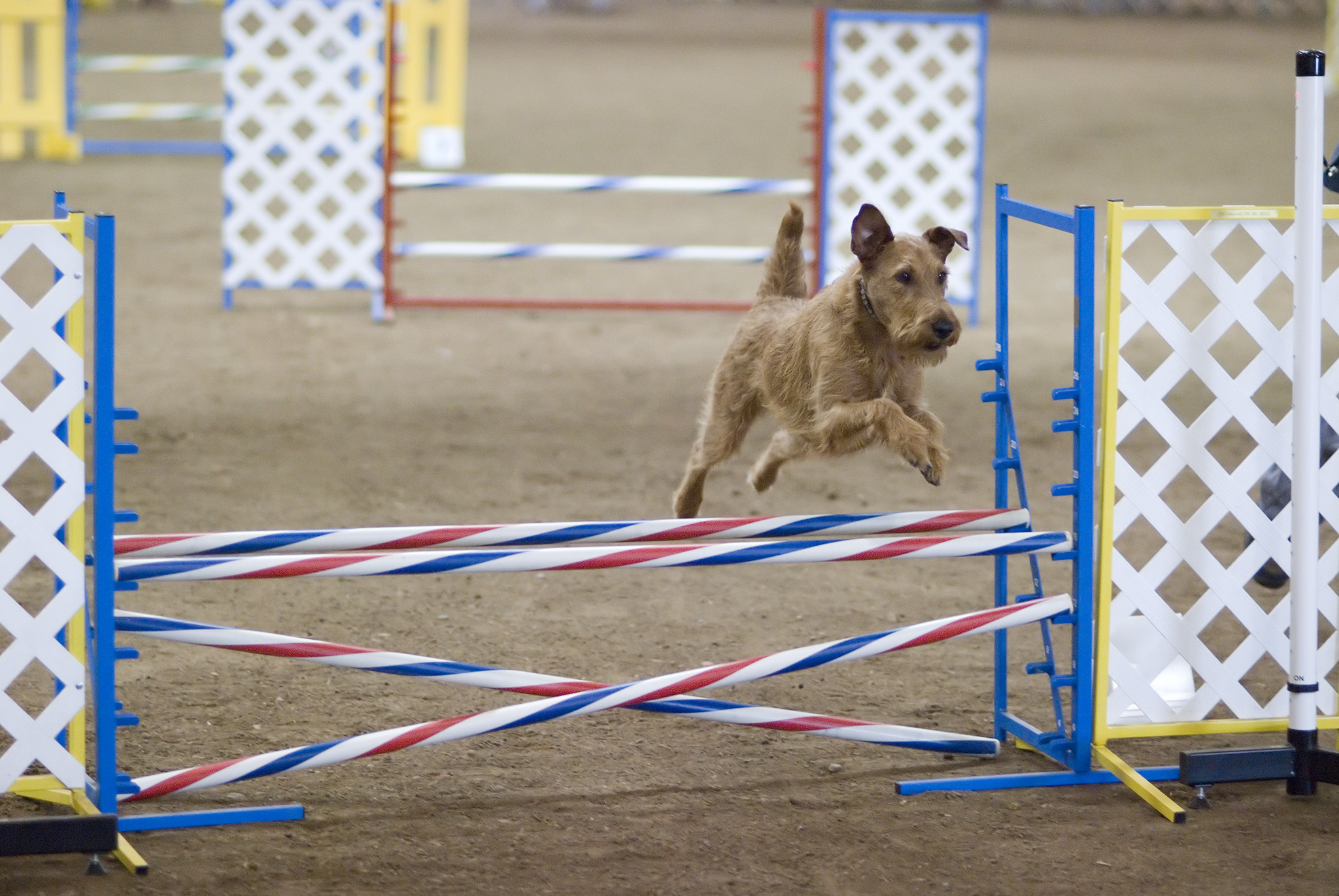 An Irish Terrier in an agility competition.